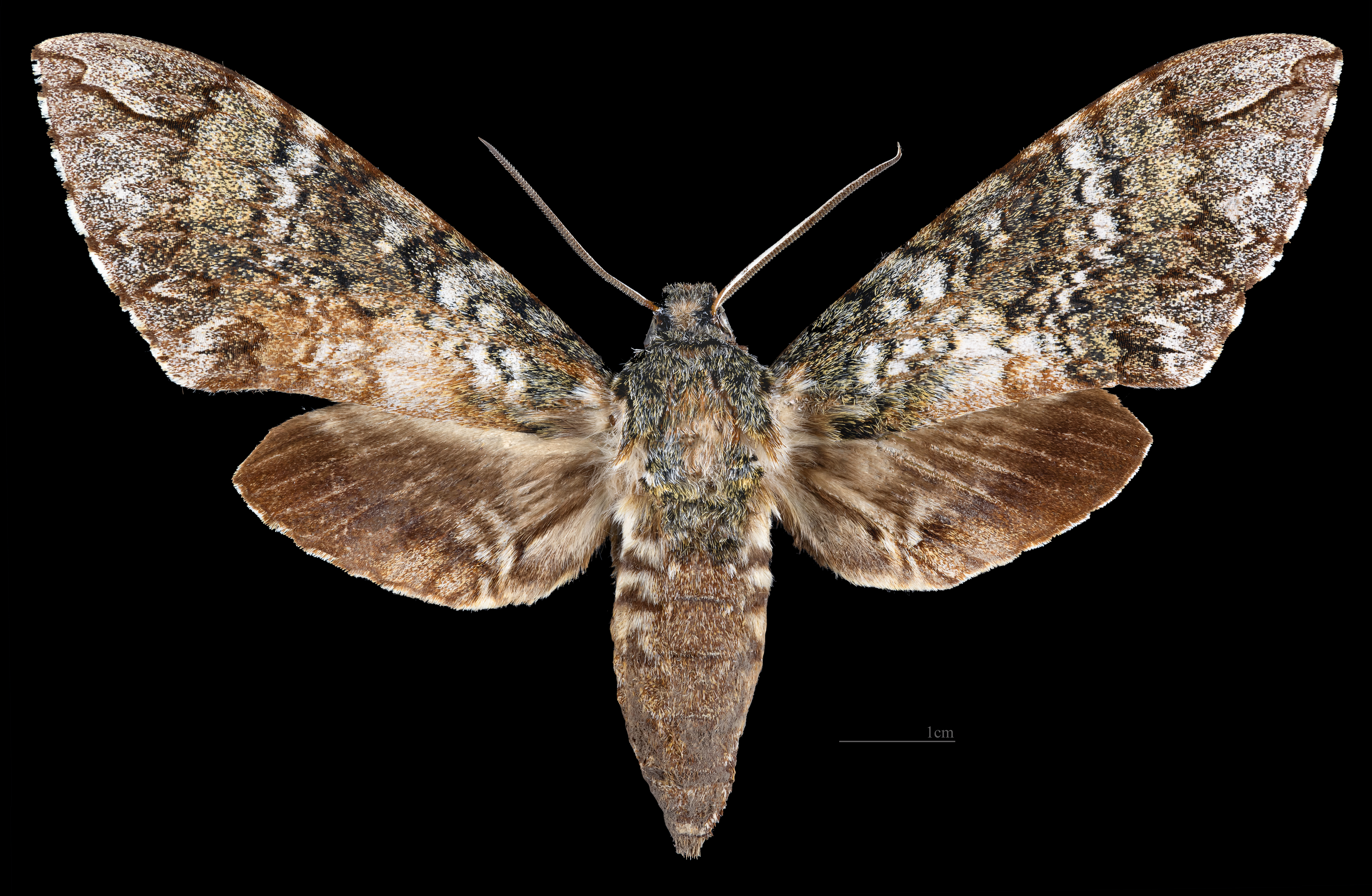 Manduca lanuginosa - Dorsal side Collection of the Mathematician Laurent Schwartz